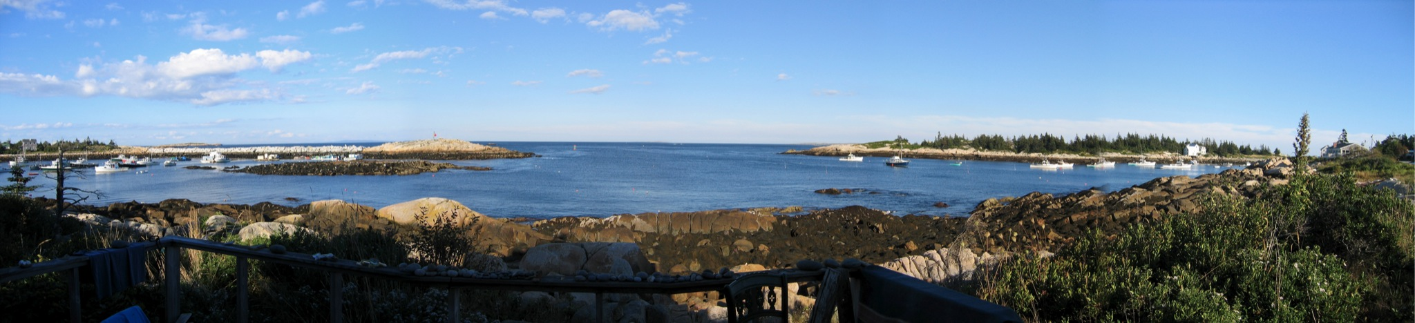 Harbor Low Tide Panorama (Matinicus Island, Maine)